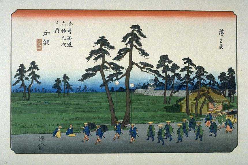 Kano on the Kisokaido, ukiyo-e prints by Hiroshige